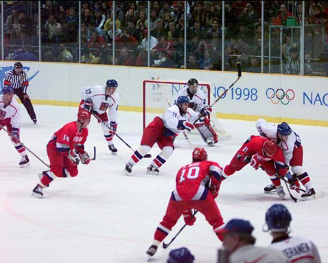 The mens ice hockey Gold Medal Game of the en:1998 Winter Olympics in Nagano.